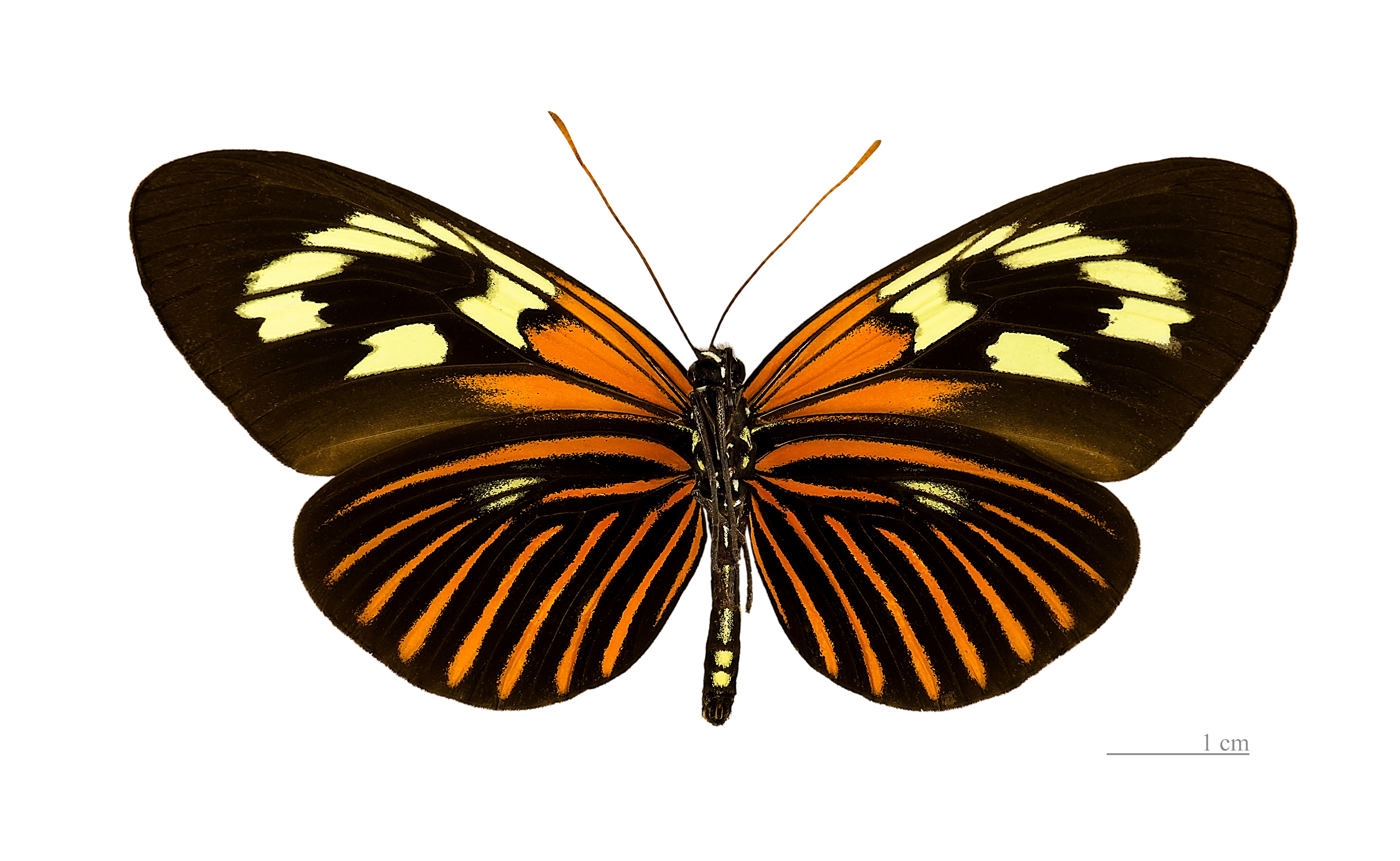 Neruda aoede aoede - △ Ventral side